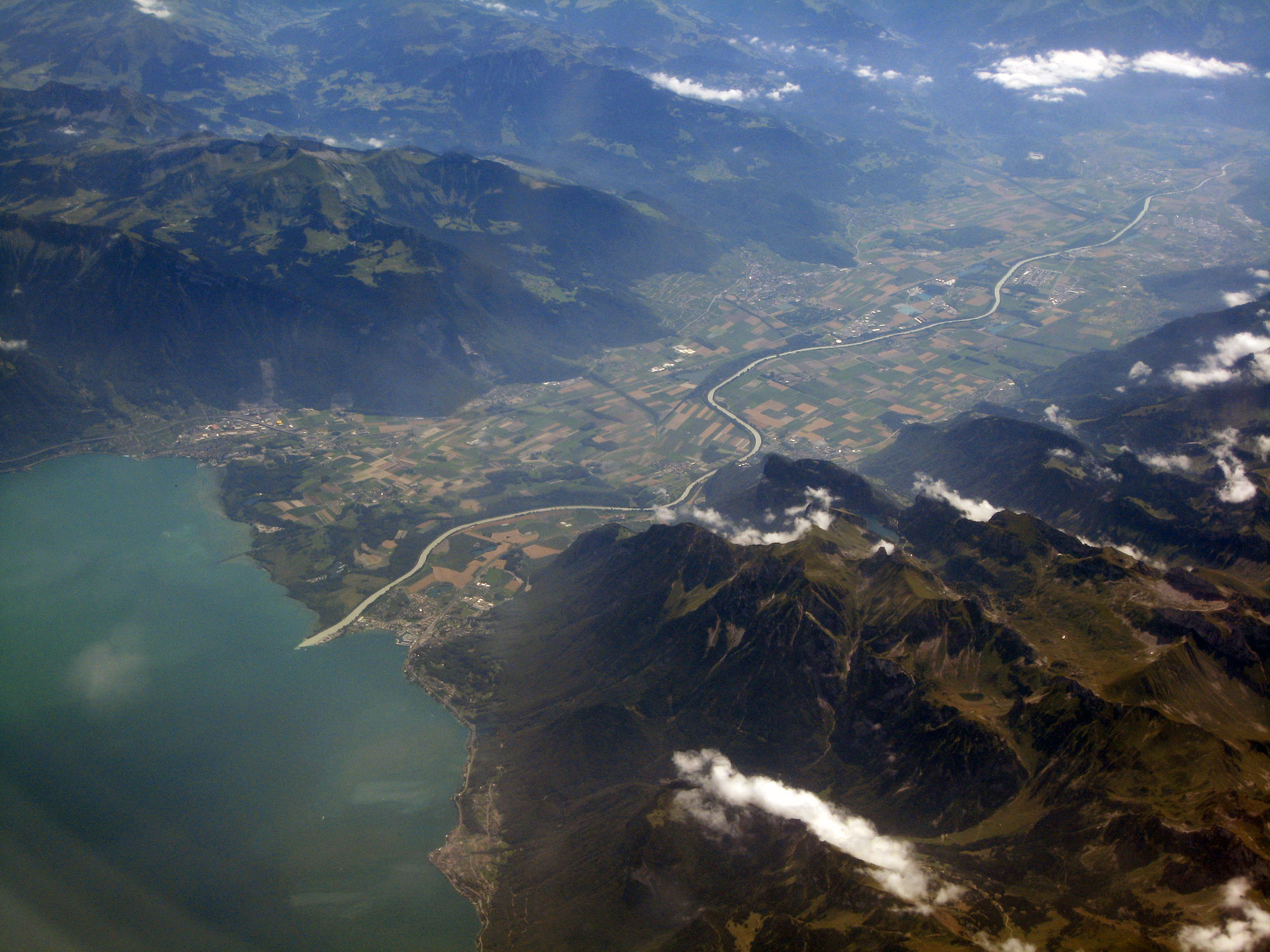 Aerial photographs of the river Rhône flowing into Lake Geneva, Switzerland.